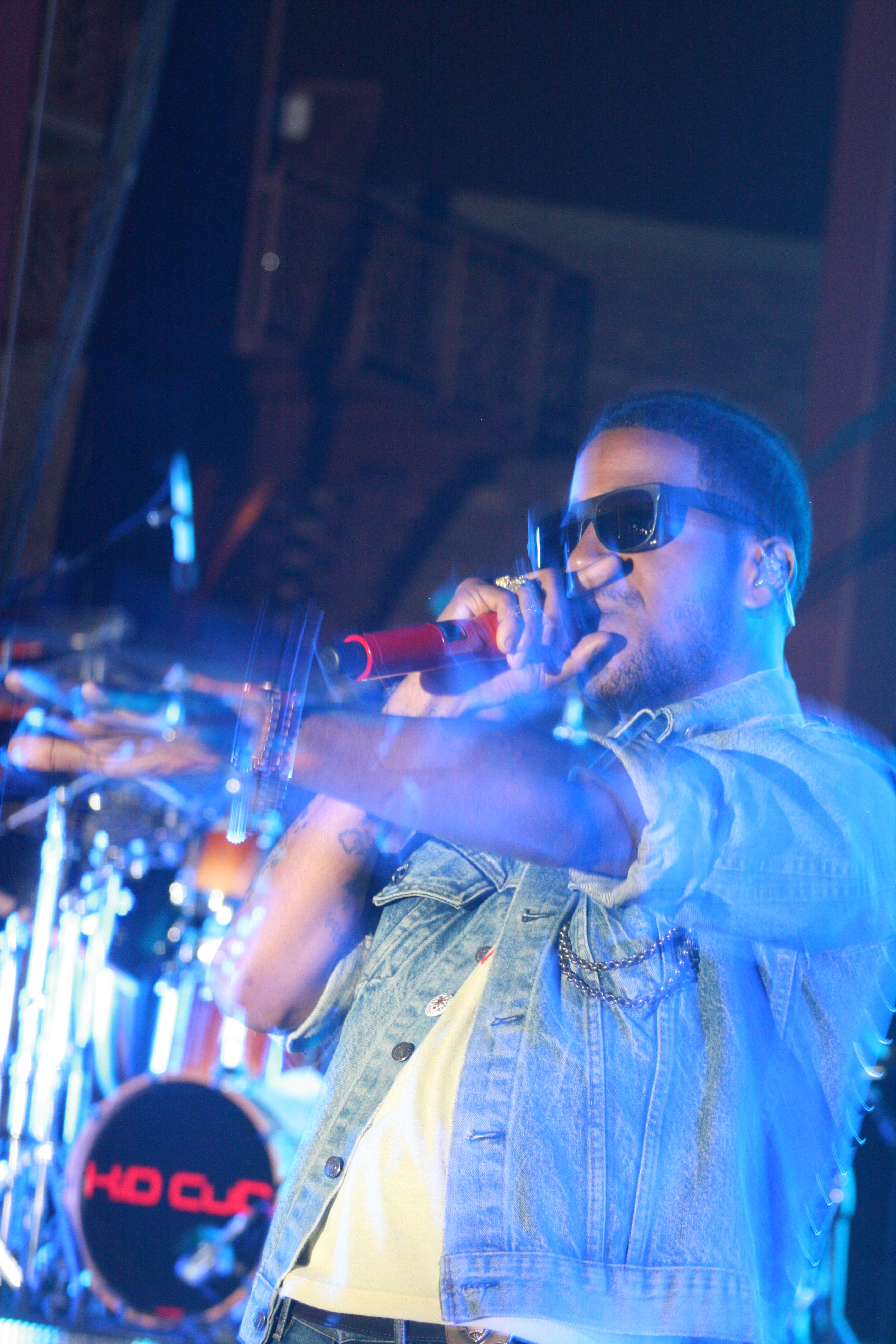 Global Dance Fest 2011 @ Red Rocks